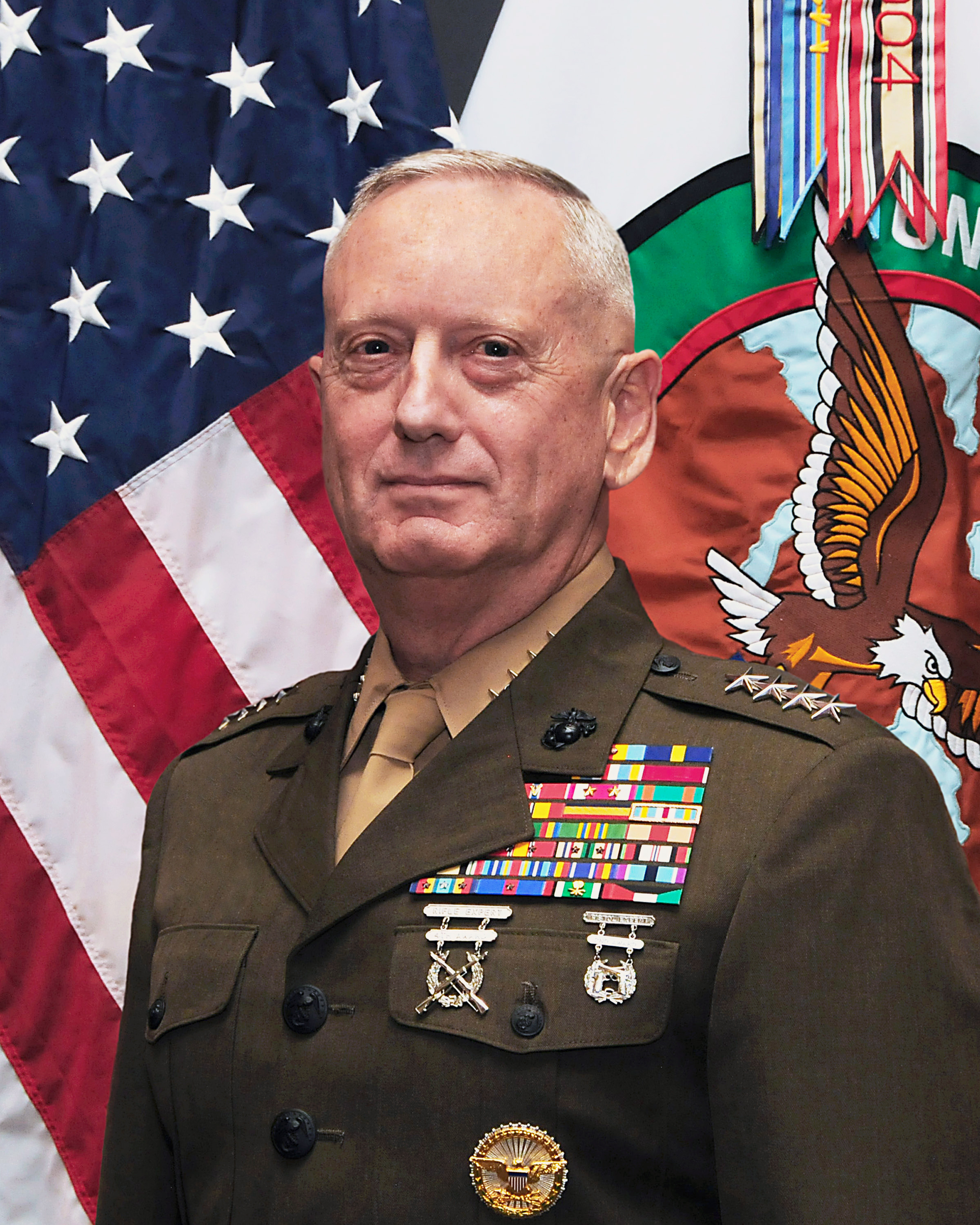 Gen James N. Mattis, Commander of United States Central Command